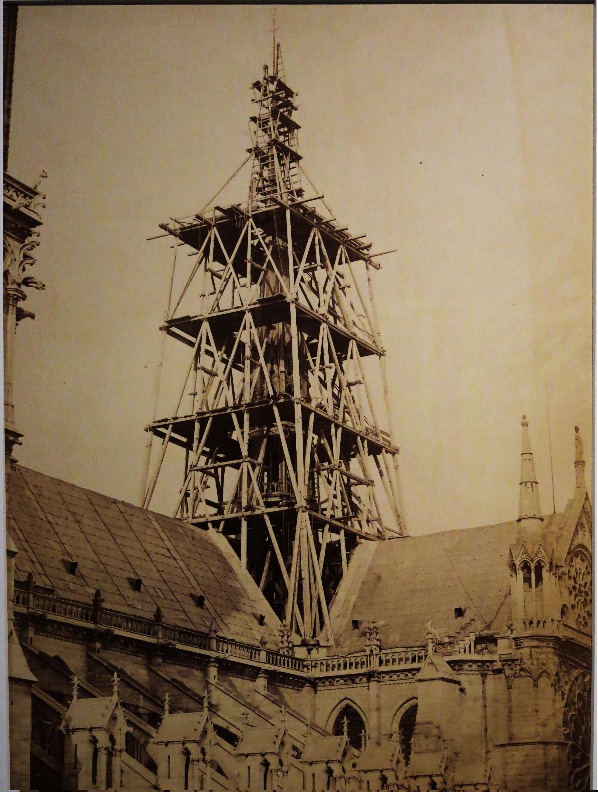 Scaffolding of the spire under construction of the cathedral of Notre-Dame de Paris (France). Charenton-le-Pont, médiathèque de l'architecture et du patrimoine, 0080/101-159.